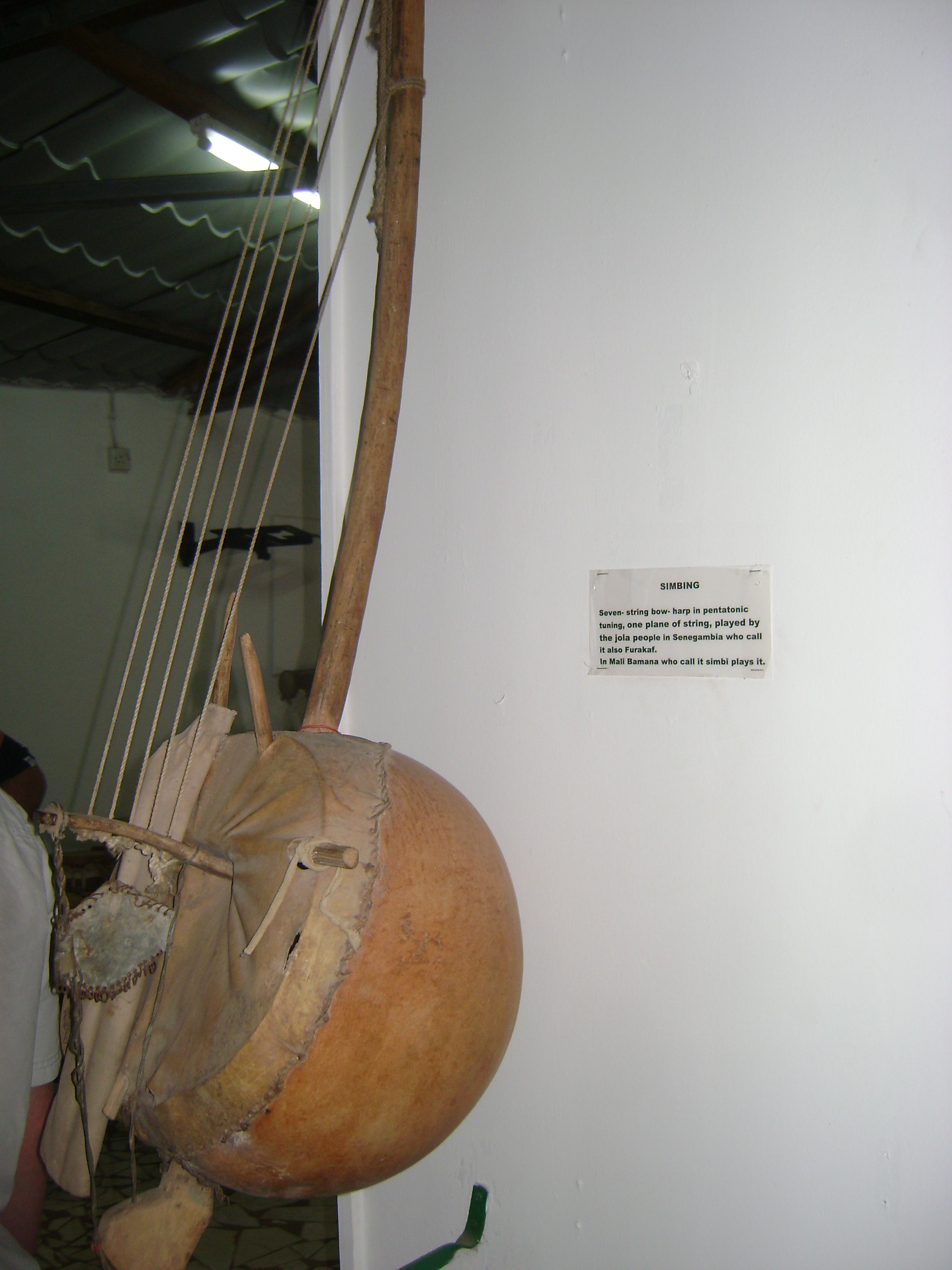 A simbing in Bakau Crocodile Museum, Gambia “SIMBING Seven- string bow- harp in pentatonic tuninc, one plane of string, played by the jola people in Senegambia who call it also Furakaf. In Mall Bamana who call it simbi plays it.”